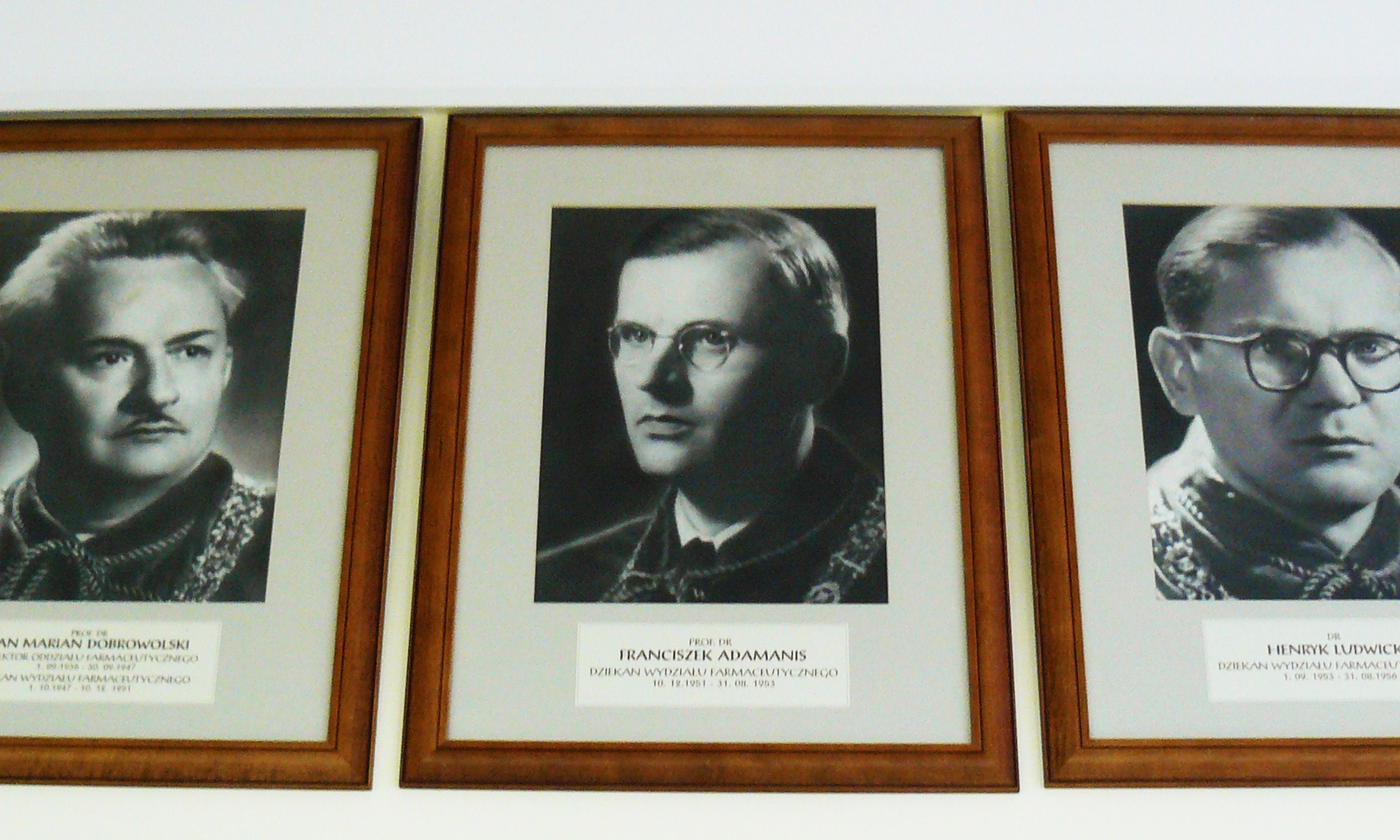 Franciszek Adamanis.